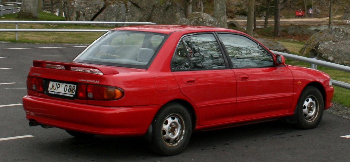 1996 Mitsubishi Lancer 1.6 GLXi